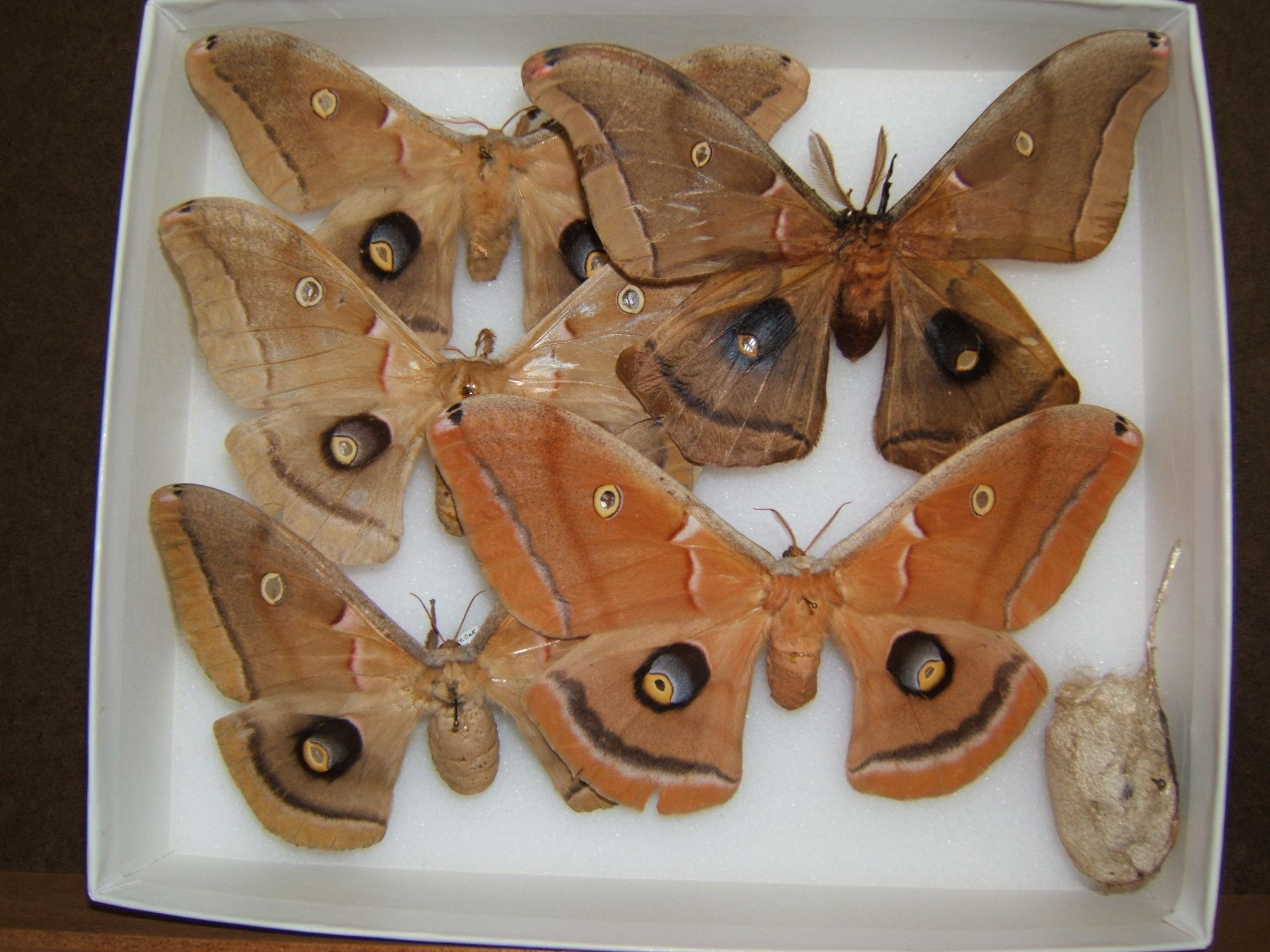 Antheraea polyphemus adult variation taken by Shawn Hanrahan at the Texas A&M University Insect Collection in College Station, Texas.